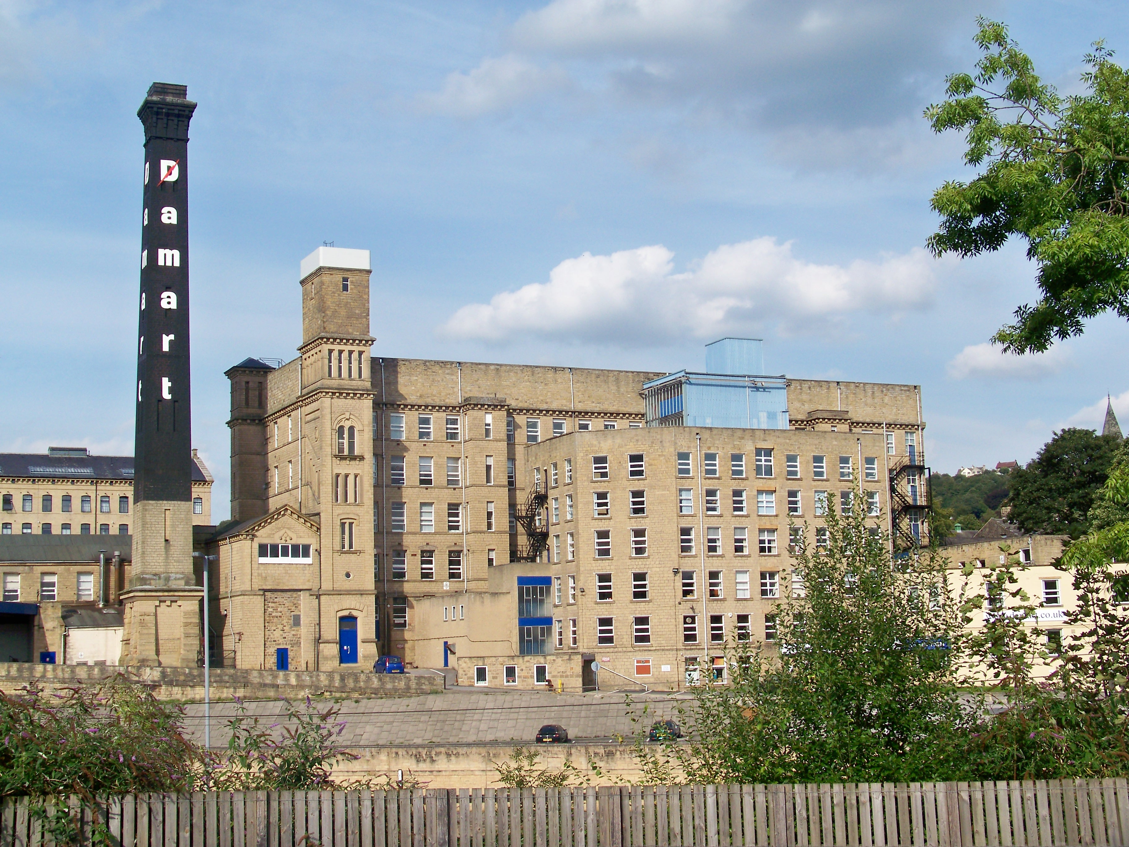 Damart buildings, Bingley, West Yorkshire. Photograph taken on the afternoon of Saturday 22nd August 2009.